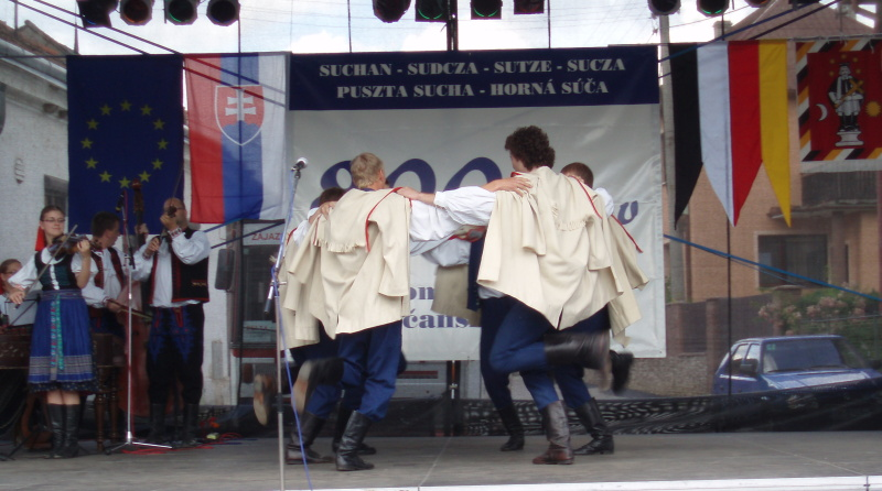 800 years village Horná Súča, Slovakia